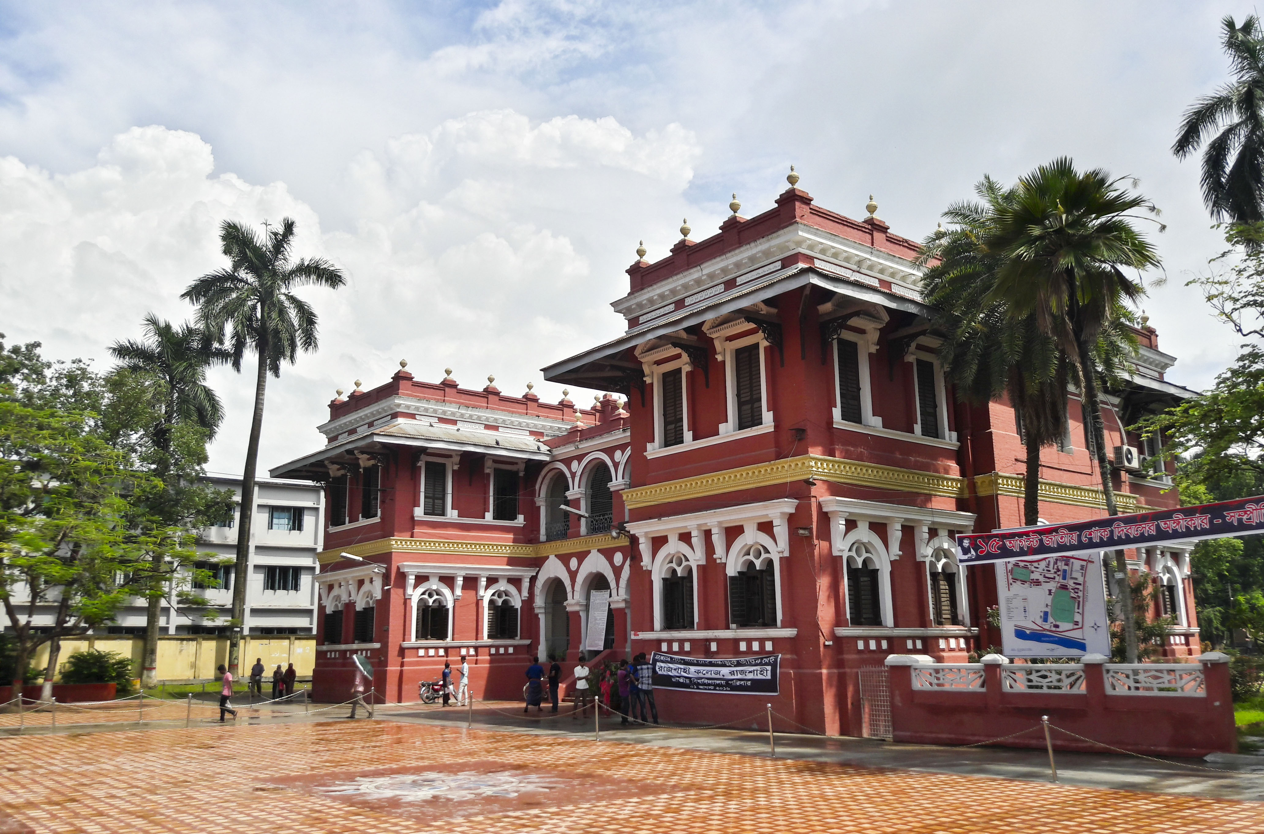 The college had no building at the beginning of the college. The leaders of Rajshahi Association took the initiative to construct the college’s first building. The first building of the college now serving as the administrative building was constructed in 1884 at the cost of taka 67,700.00 and planned by a skilled British engineer.